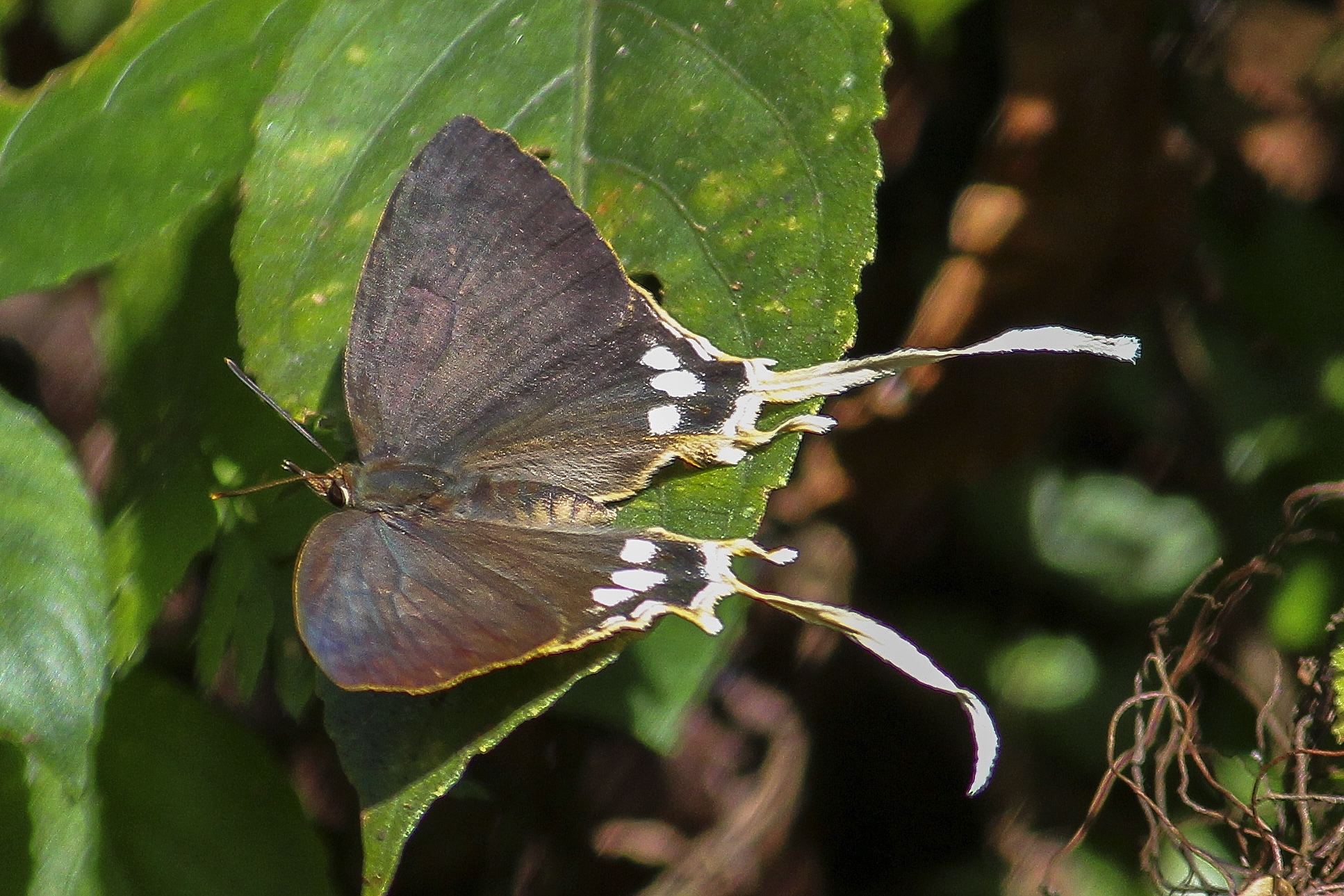 Cheritra freja Fabricius, 1793. Subspecies: Cheritra freja evansi Cowan, 1965 – Khasi Common Imperial